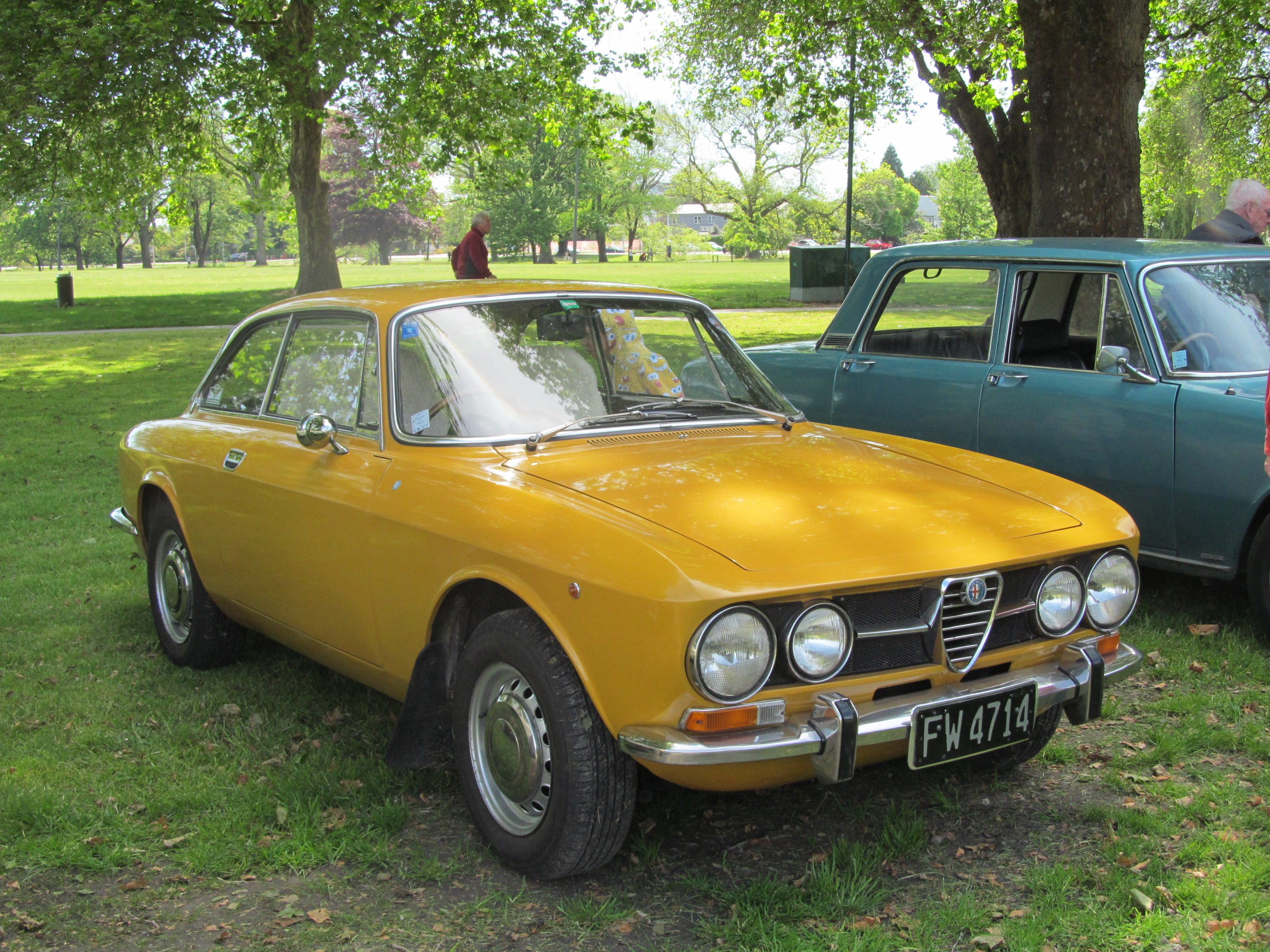 A beautiful New Zealand new example of the GTV. The original owner must have had some healthy overseas funds to get hold of this.